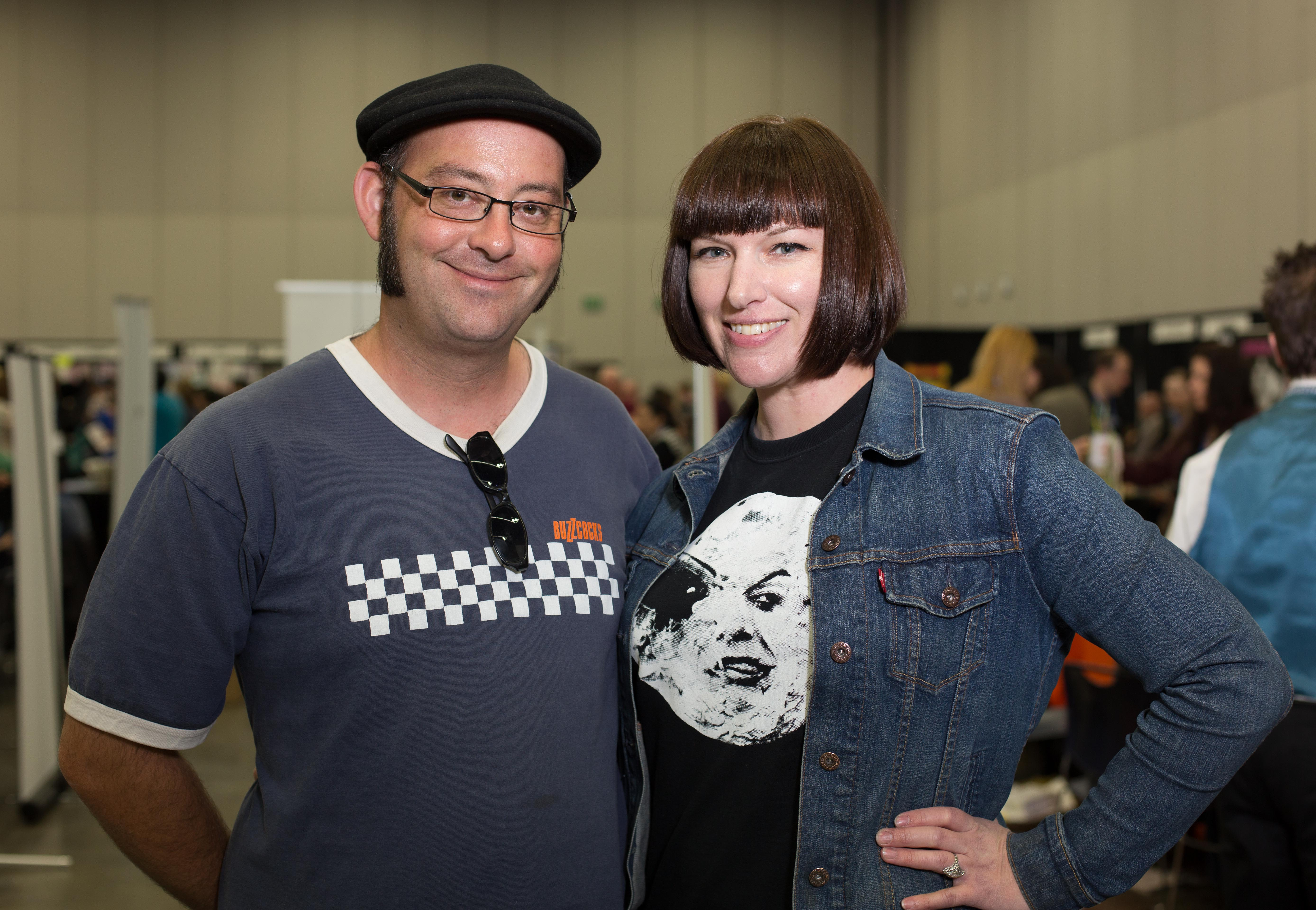 Jon Flores and Chynna Clugston Florres